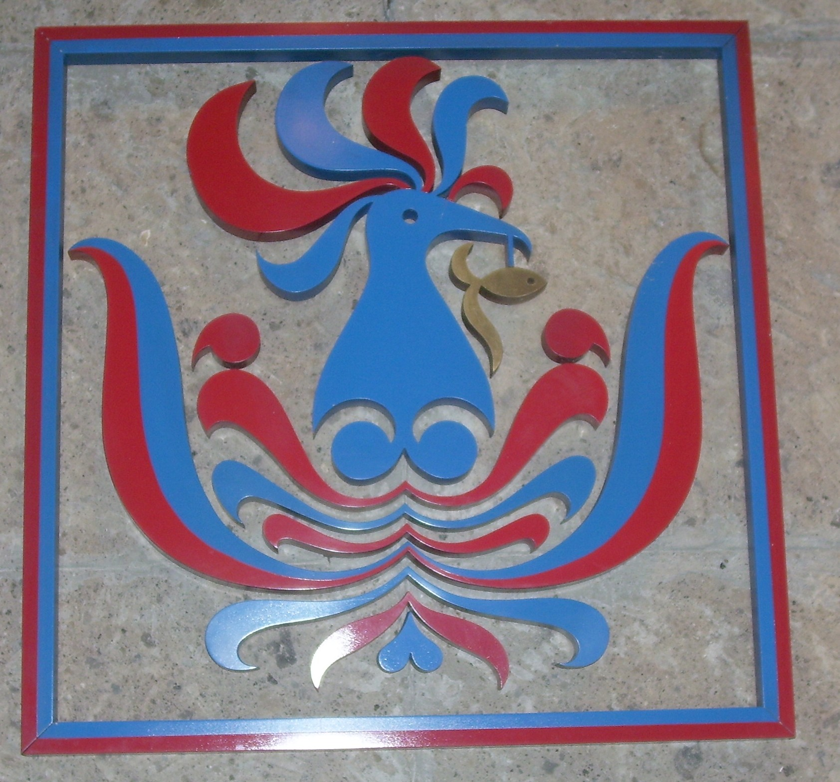 The Sarimanok of Philippine folklore. This Sarimanok is displayed at the Philippine Center, New York City, U.S.A.